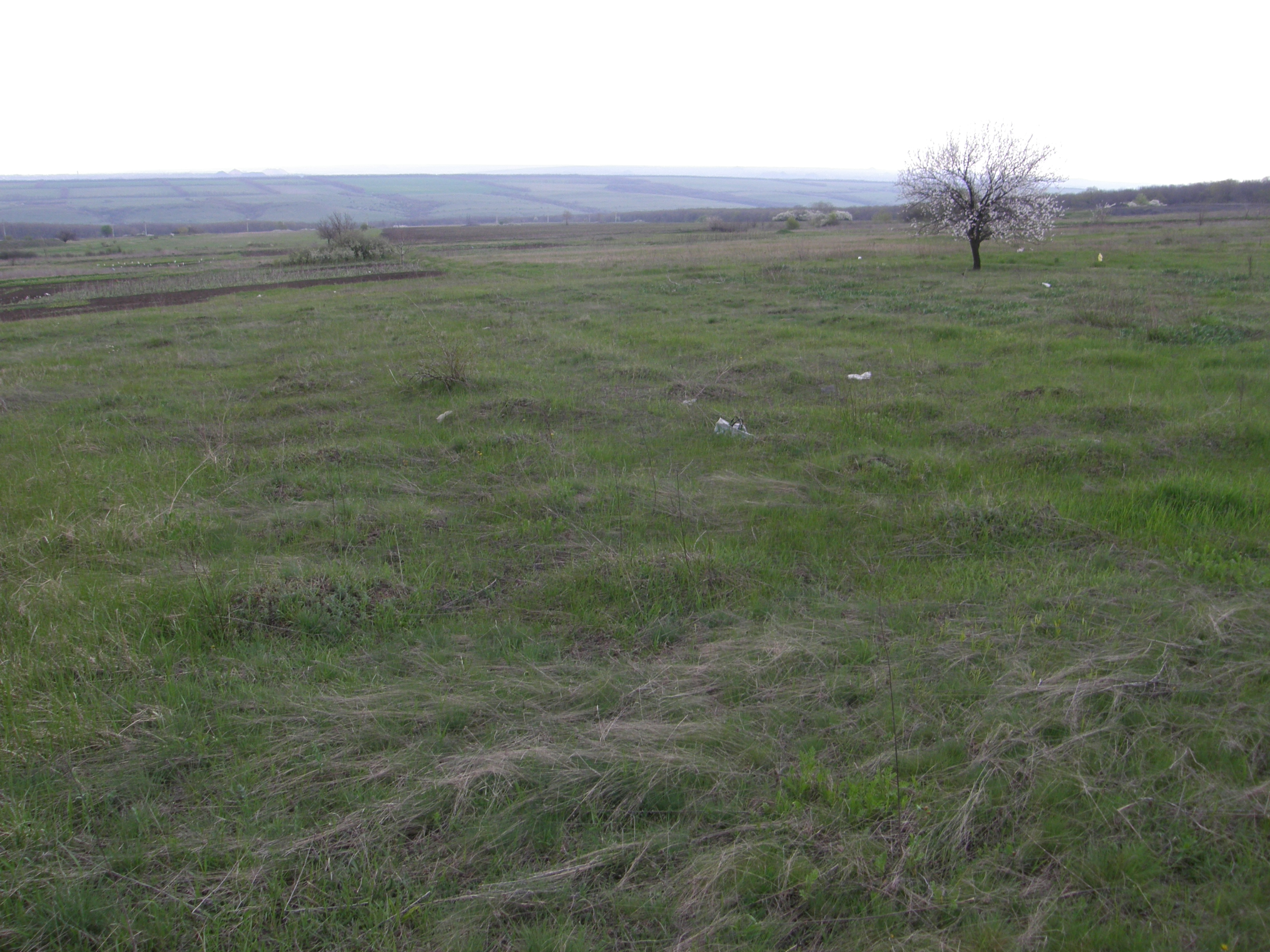 Hungarian war-prisoners cemetery in the city New Donbass (Snezhnoe)